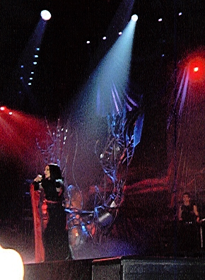 Madonna performing "Nobody's Perfect" on the Drowned World Tour